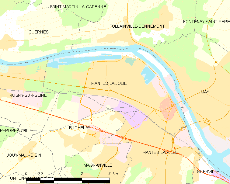 Map of French municipality Mantes-la-Jolie